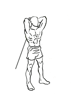 an exercise of triceps